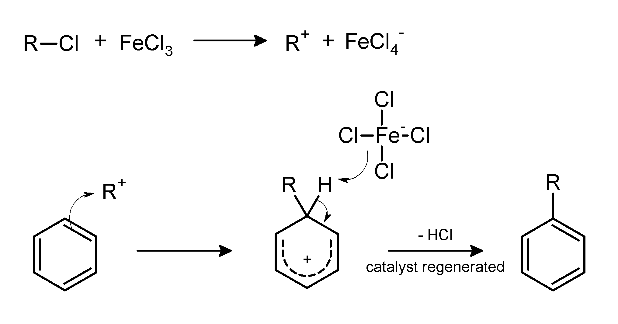 Mechanism for Friedel-Crafts alkylation